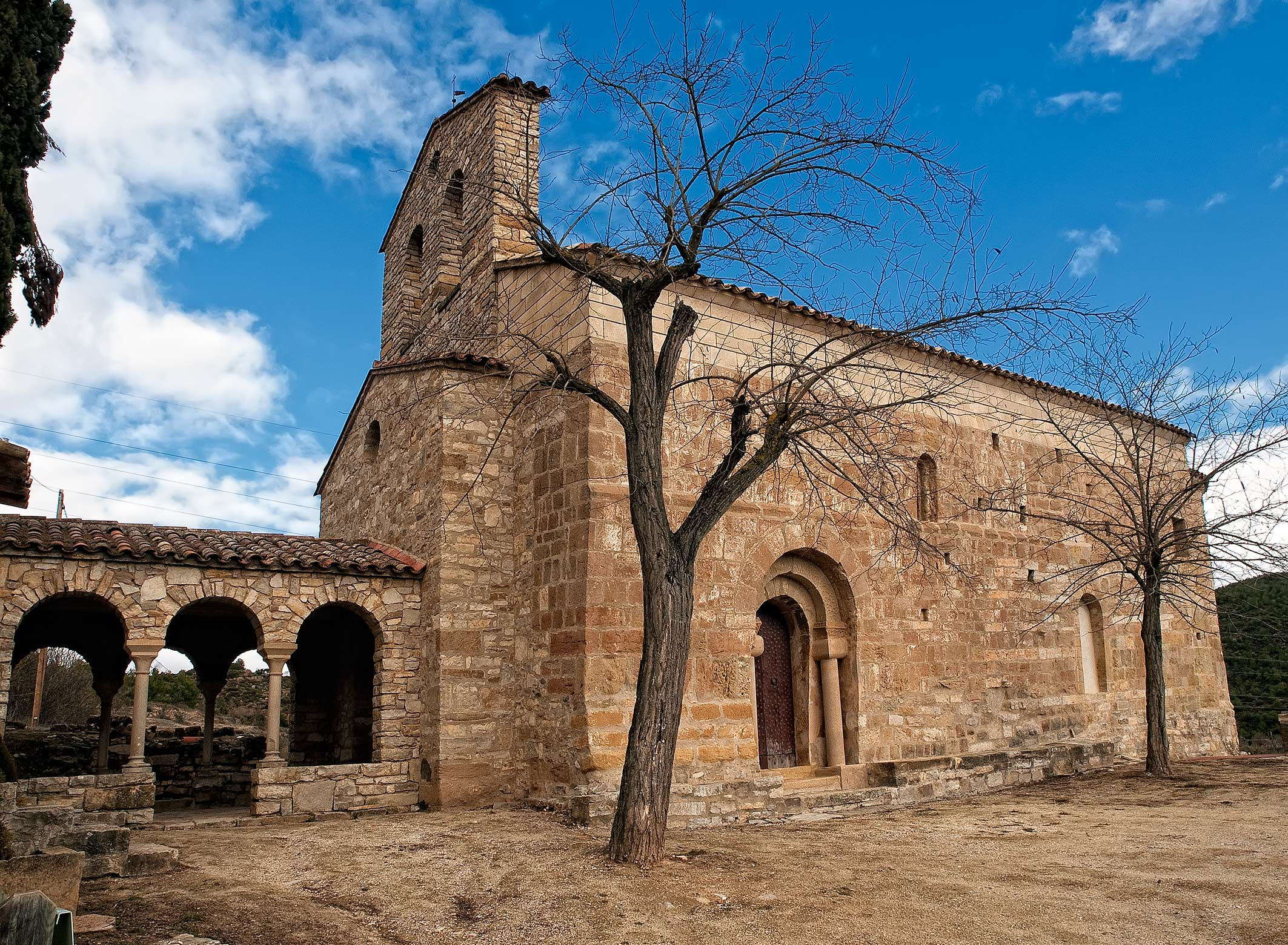 Santa Maria of Veciana church (Catalonia, Spain)